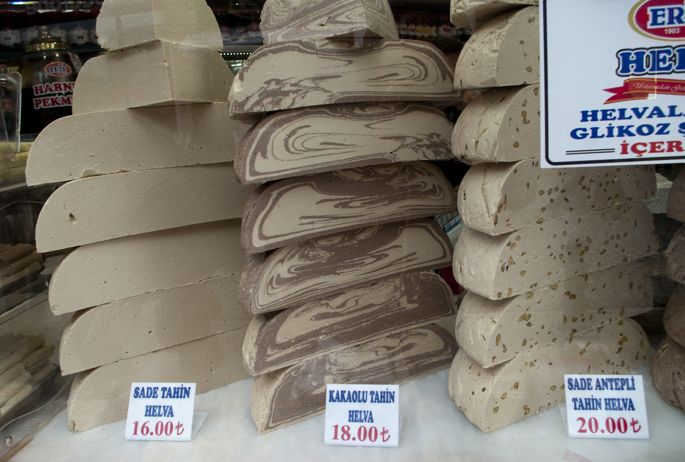 Tahin Helva (a sweet prepared in many varieties with tahini, sesame) in the display case of food store in Çarşı, Eskişehir - Turkey.